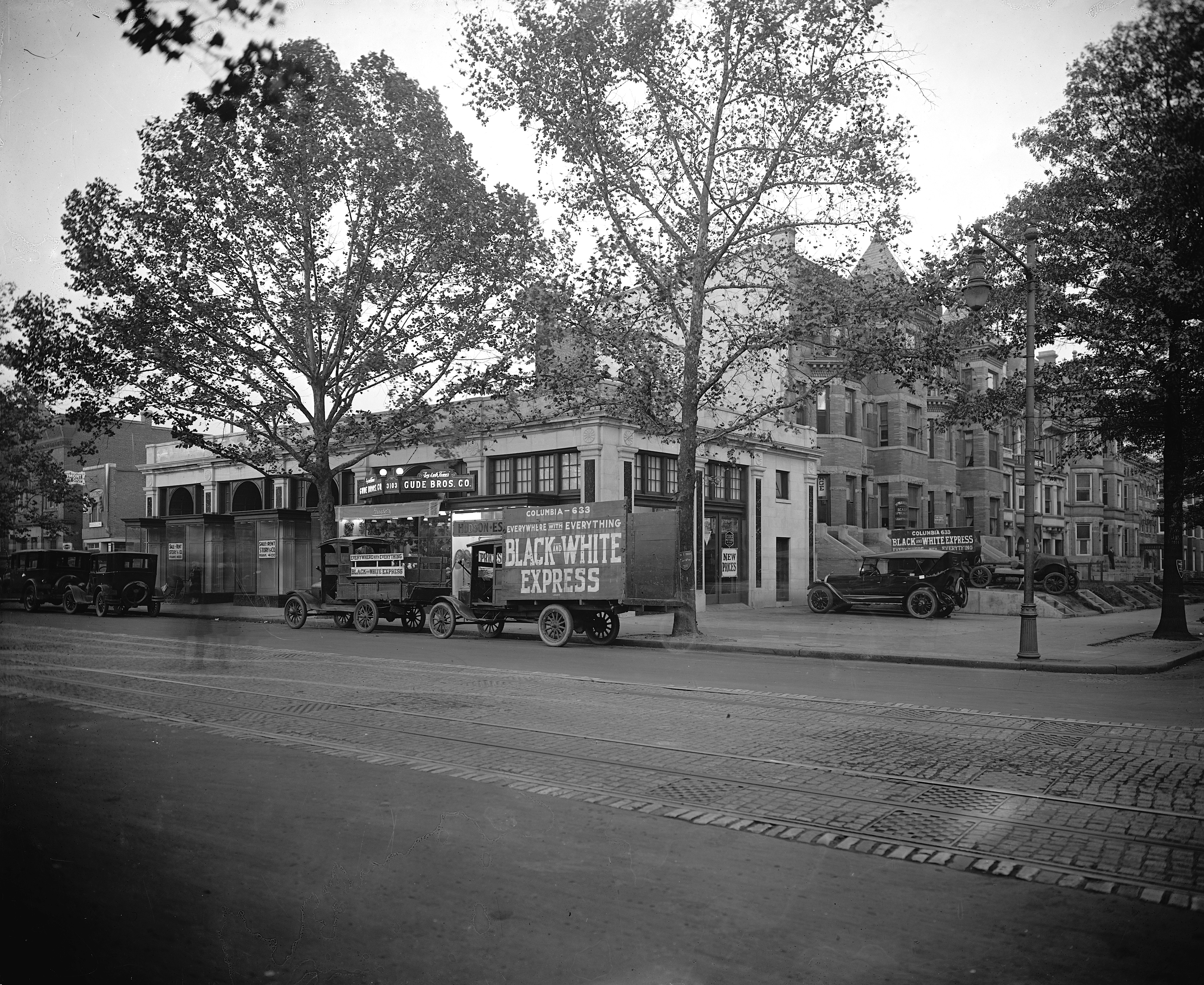 J.C. Barker Motor Co., 14th & Irving St. NW in Washington, DC